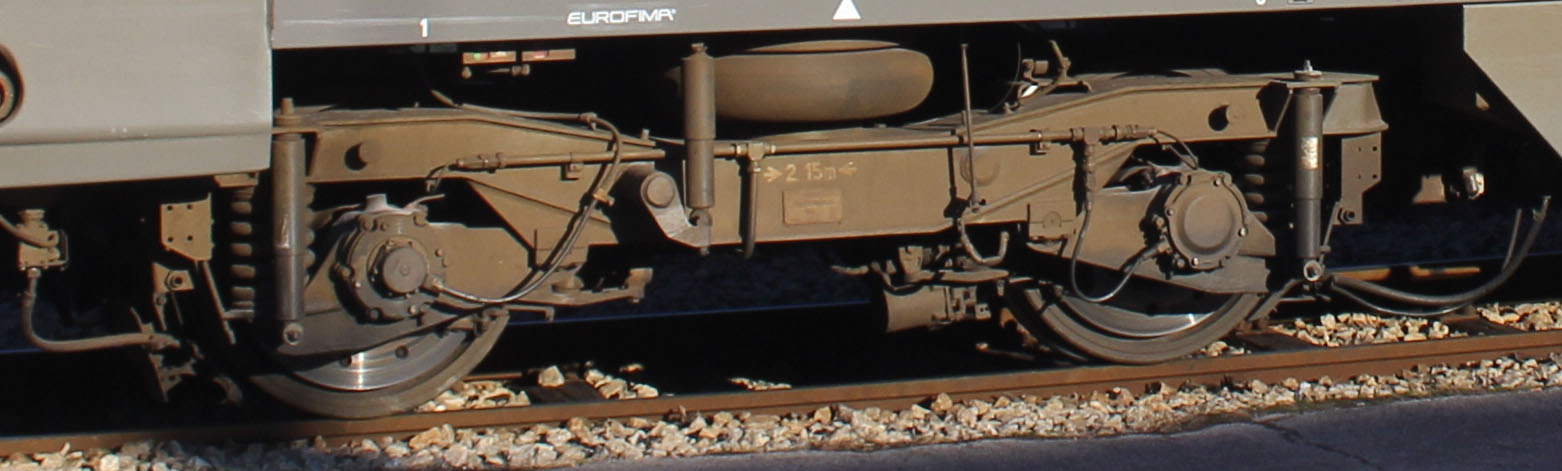 Motor bogie of diesel train DP-S (711) of Serbian railways